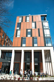 Front view of the George Davies Building, largest UK PassivHaus, currently housing the Leicester Medical School